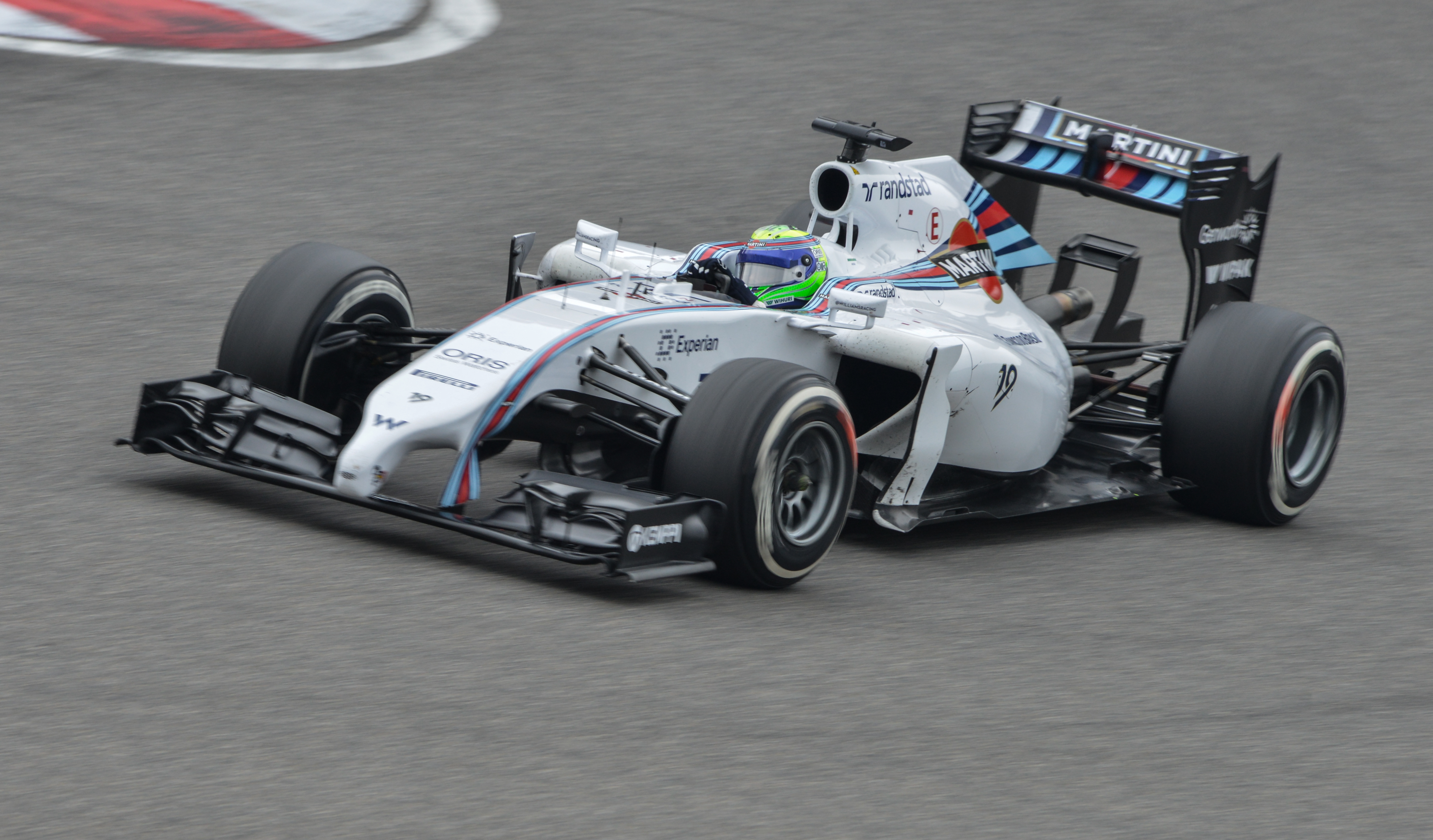 Felipe Massa (WilliamsF1)